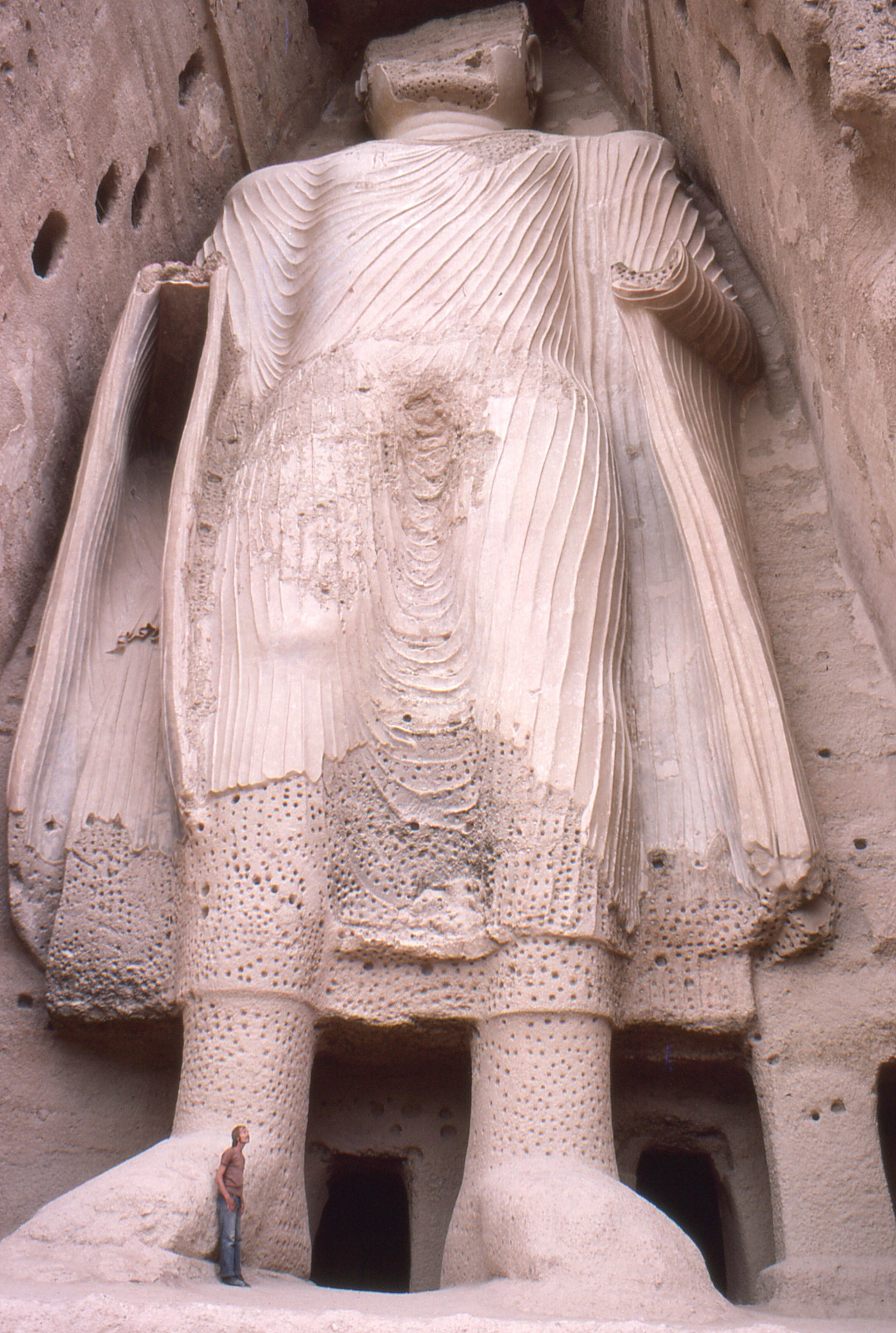 Smaller Bamyan Buddha from base, Afghanistan 1977-08-10